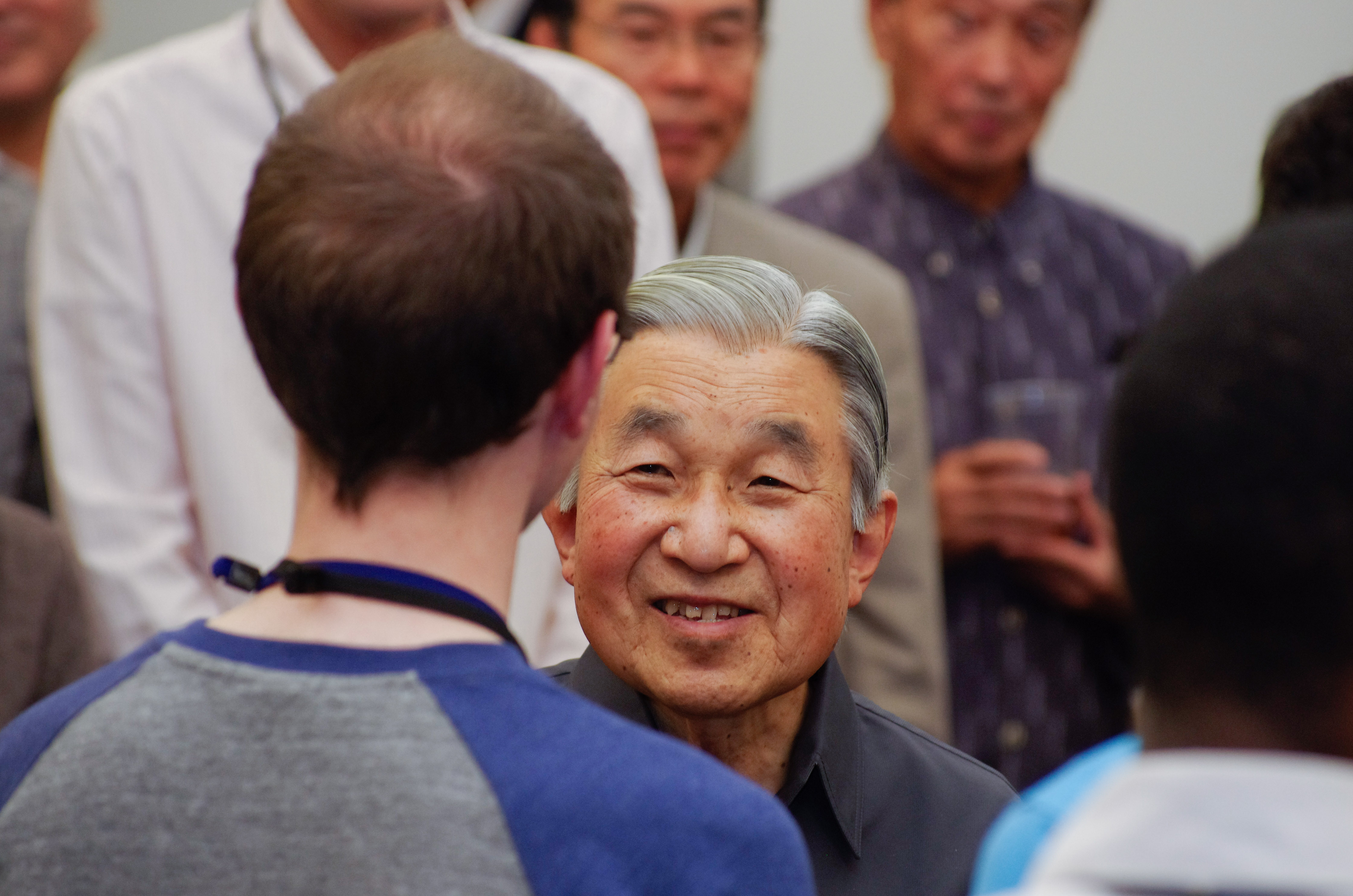 Their Majesties the Emperor and the Empress of Japan / 天皇皇后両陛下